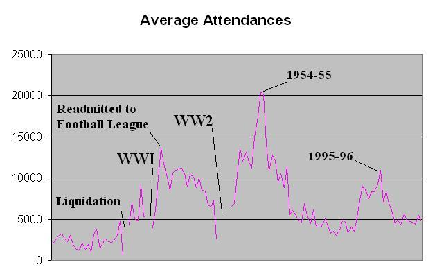 Port Vale F.C. average crowd figures